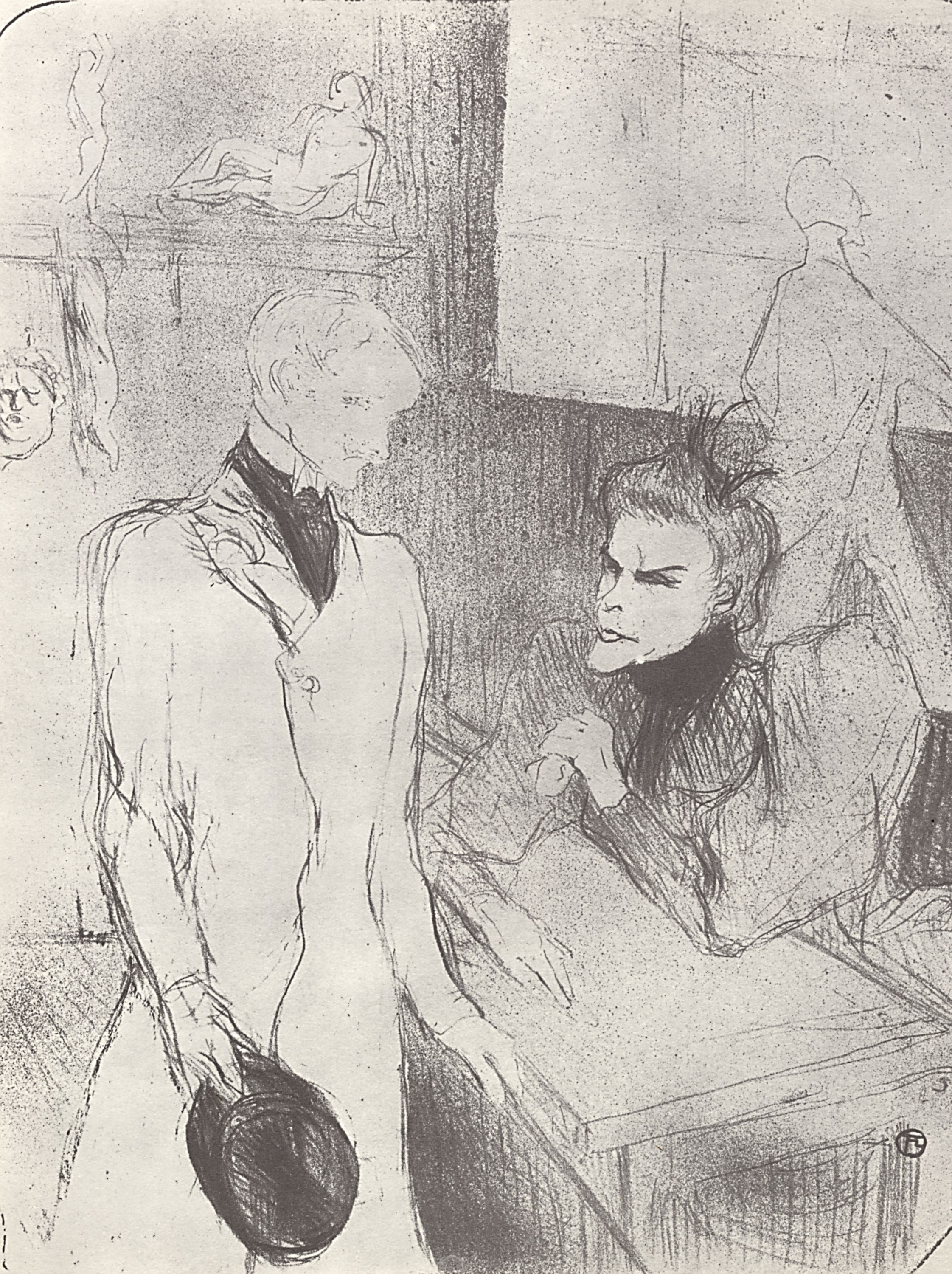 Marthe Brandès und Charles Le Bargy